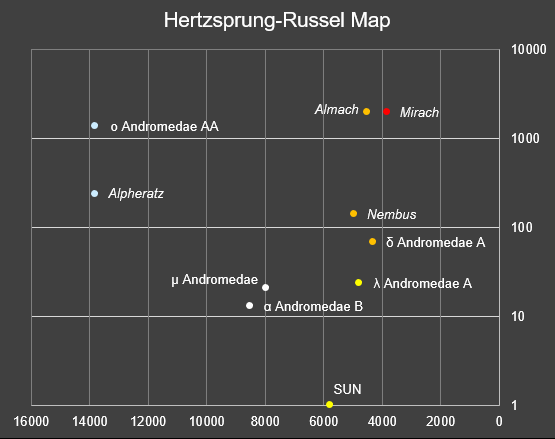 A Hertzsprung-Russel diagram for stars above 4th magnitude in the Andromeda constellation (axes not labelled).